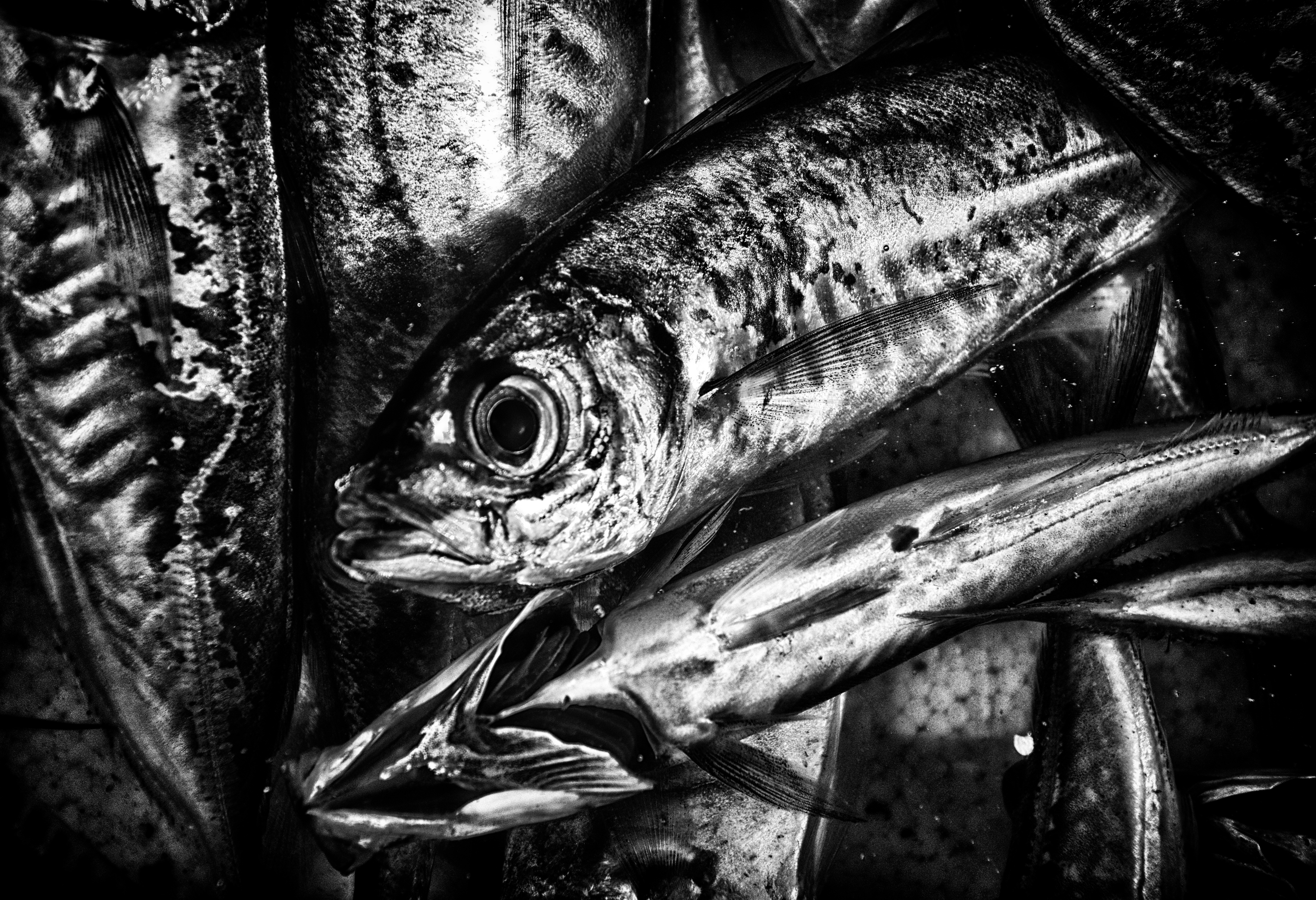 A fish in market is Black and white colored